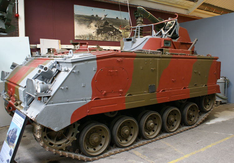 British FV438 vehicle. An FV432 personnel carrier mounting a twin missile launcher firing Swingfire wire guided anti-armour weapons.